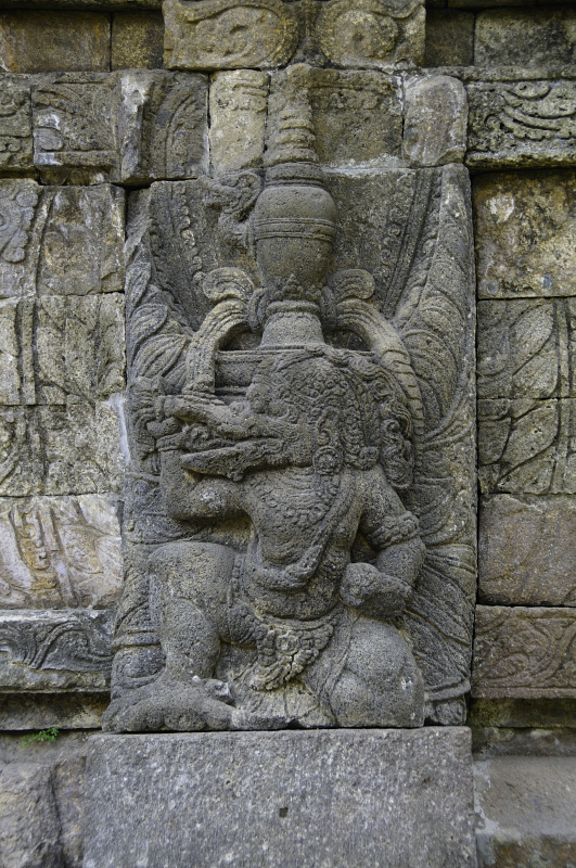 The statue of Garuda bringing the Amerta sacred water, Candi Kidal, Tumpang, Malang, Jawa Timur